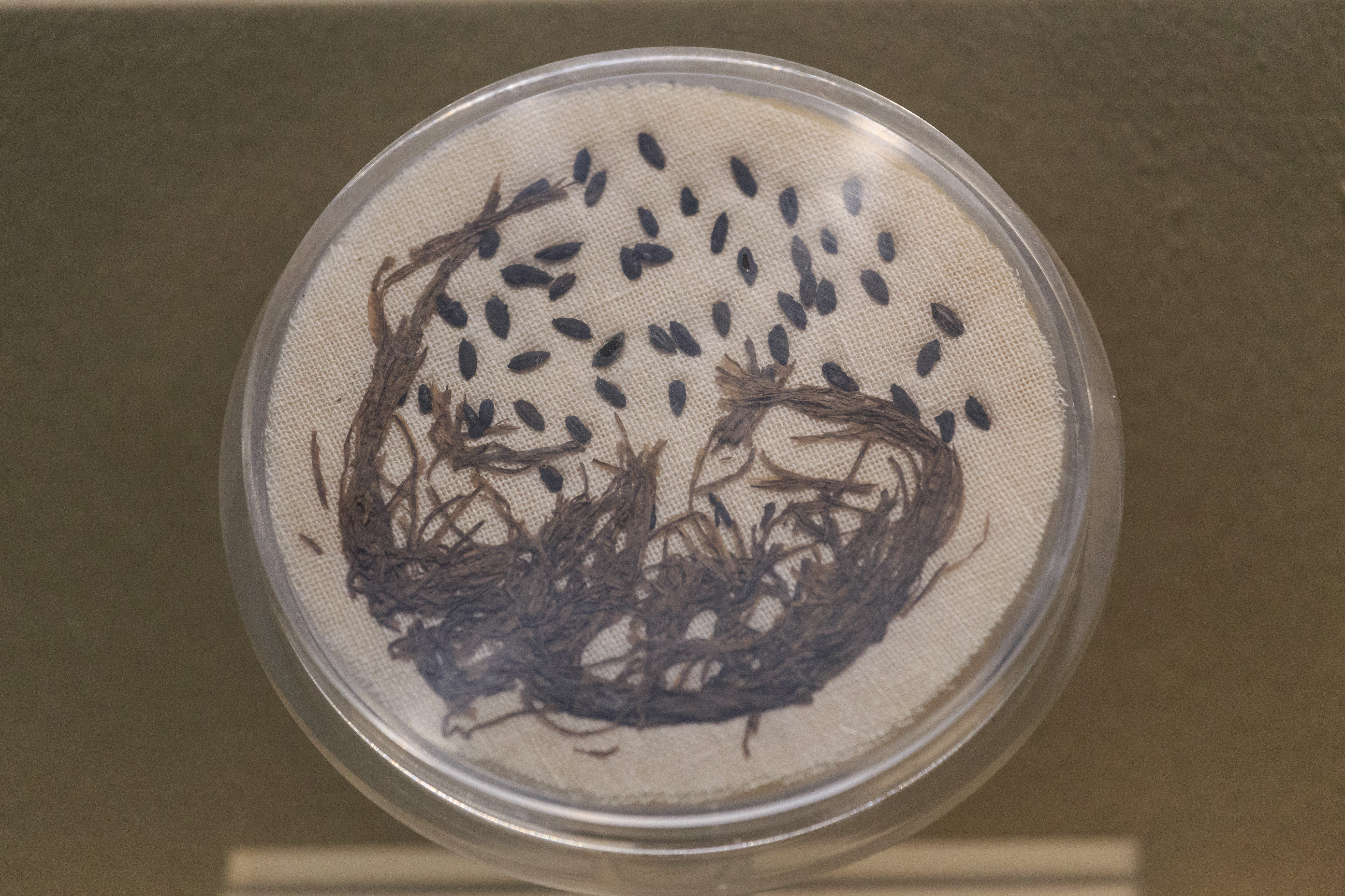 浙江省博物馆武林馆区—— 稻谷和稻叶，河姆渡遗址出土 = Rice and Inaba(?) from Hemudu